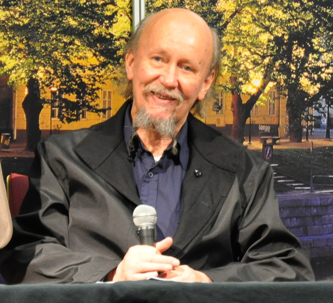 Finnish musician and composer Matti Rag Paananen at the Turku Book Fair 2009.